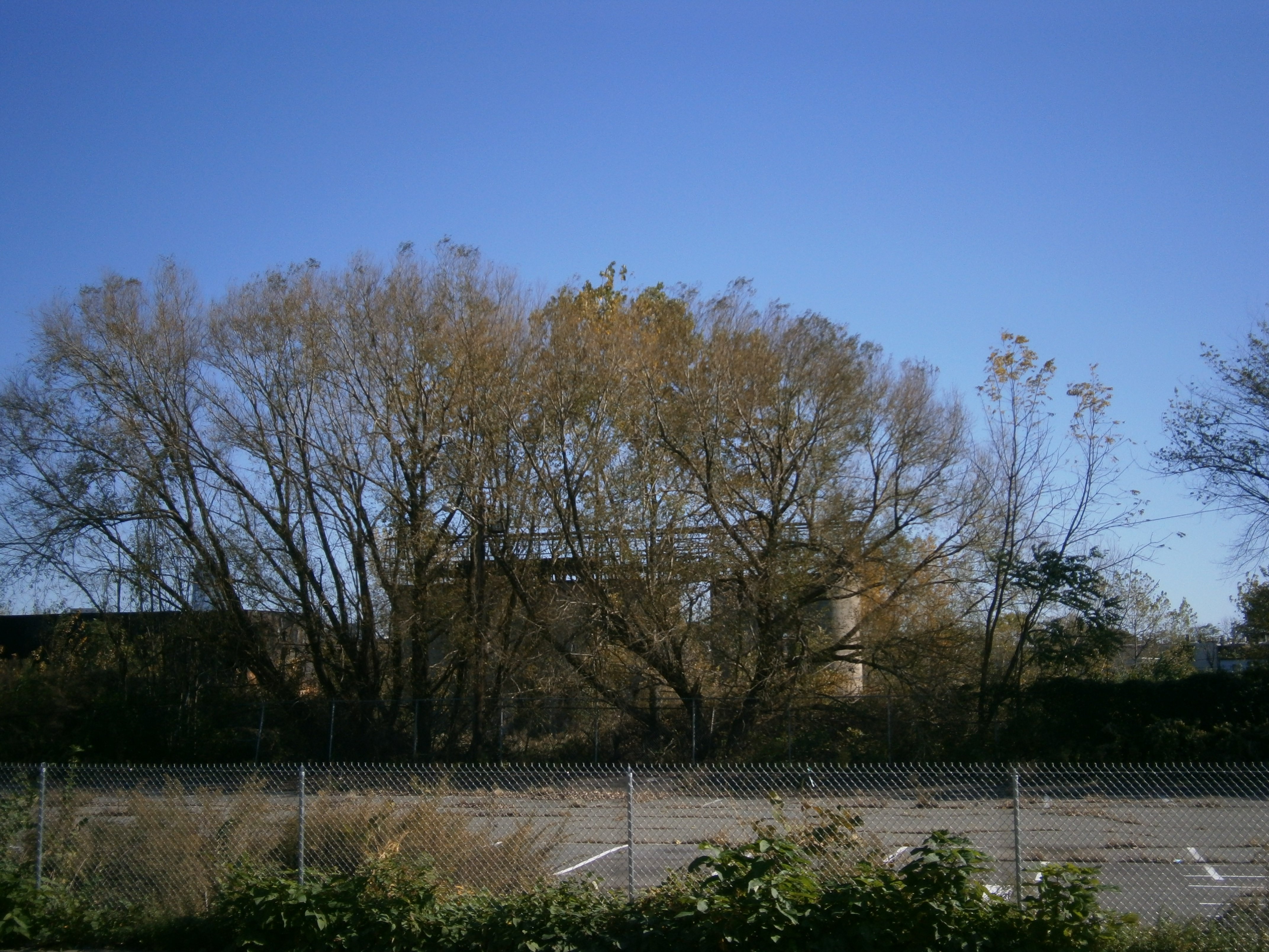 Berry Lane Park in Bergen Lafayette, Jesey City is being developed in conjunction with Canal Crossing